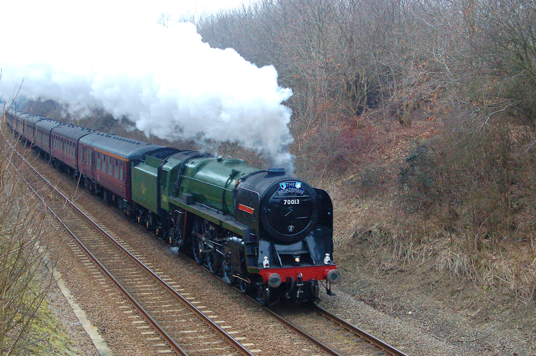 Preserved British Railways Standard Class 7MT lcomotive number 70013 'Oliver Cromwell' approaching passing Hethersett on the outskirts of Norwich with a special train heading for the North Norfolk Railway on 11 March 2010 to celebrate re-connection of the NNR to the national railway network.